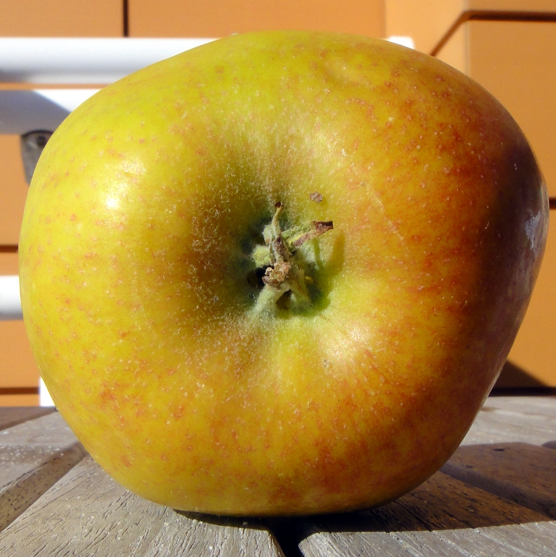 Colina apple, bought in a Sylt supermarket in August